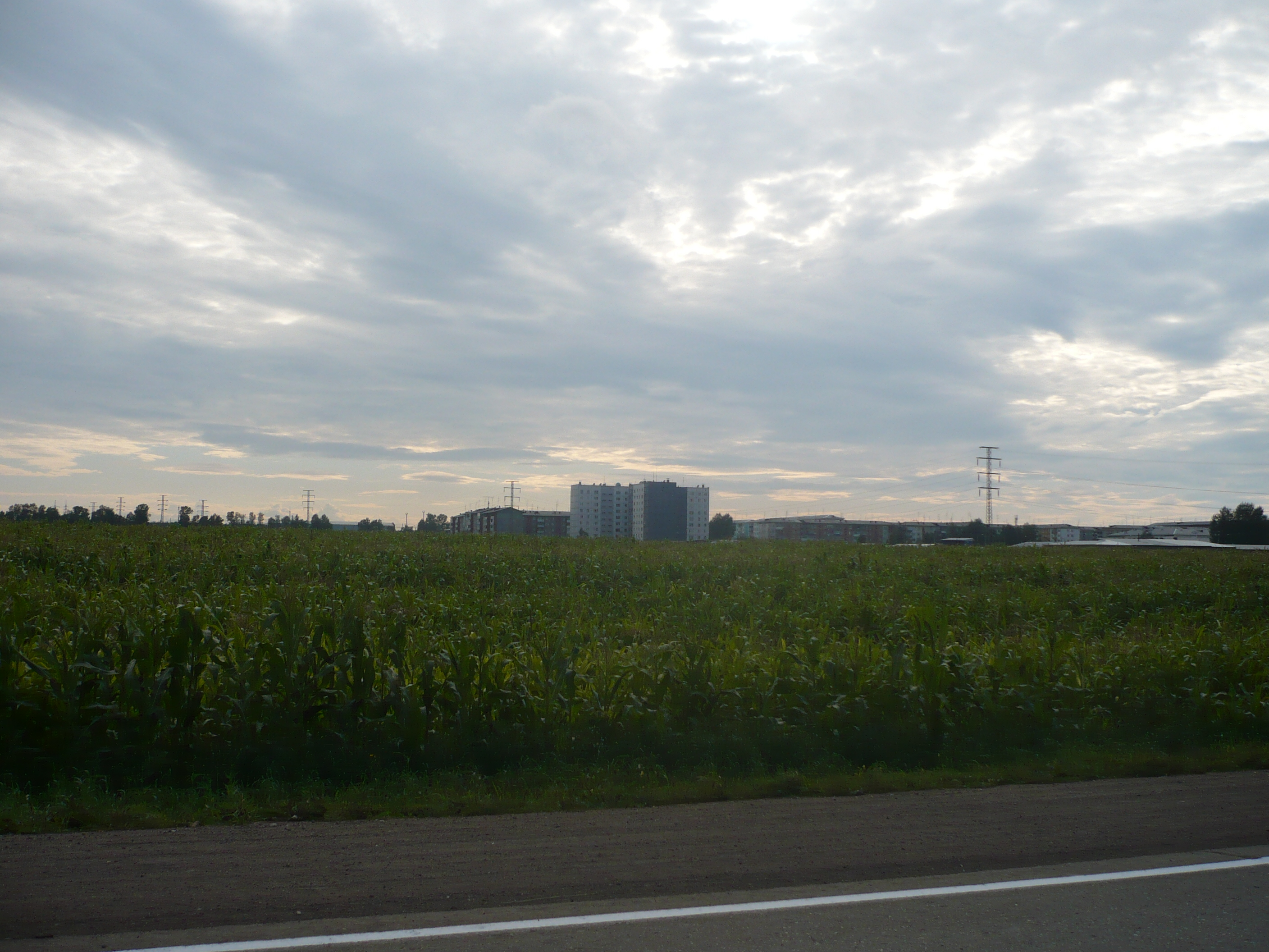 Kind of left at the entrance to Usolye-Siberian by road from the P255 Irkutsk